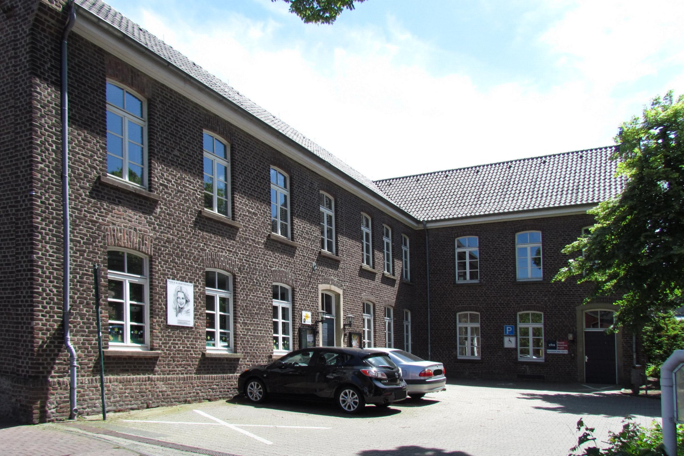 This is a photograph of an architectural monument.It is on the list of cultural monuments of Korschenbroich